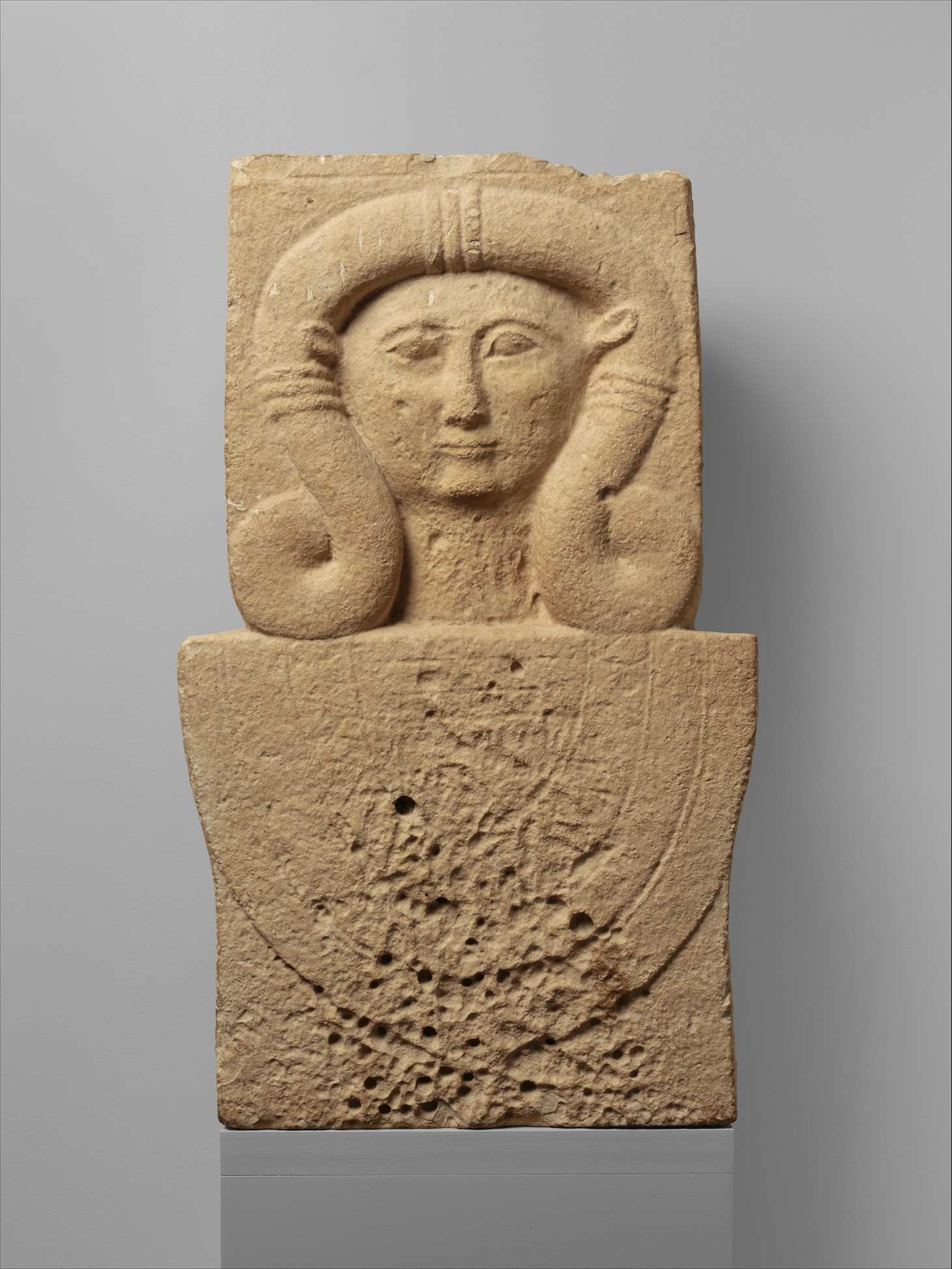 Cypriot; Grave stele with head of Hathor; Stone Sculpture